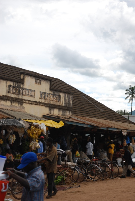 Morogoro market, Tanzania